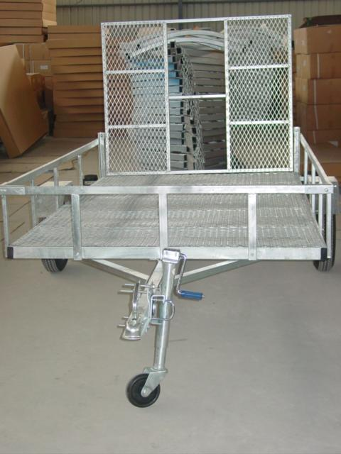 Baset trailer derived from CT0030 mini utility trailer from